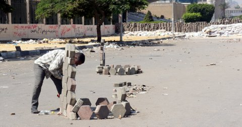 Original desciption: "Tending to the paving stones marking where Morsi supporters died in clashes last month, Cairo, August 12, 2013. (E. Arrott/VOA)"